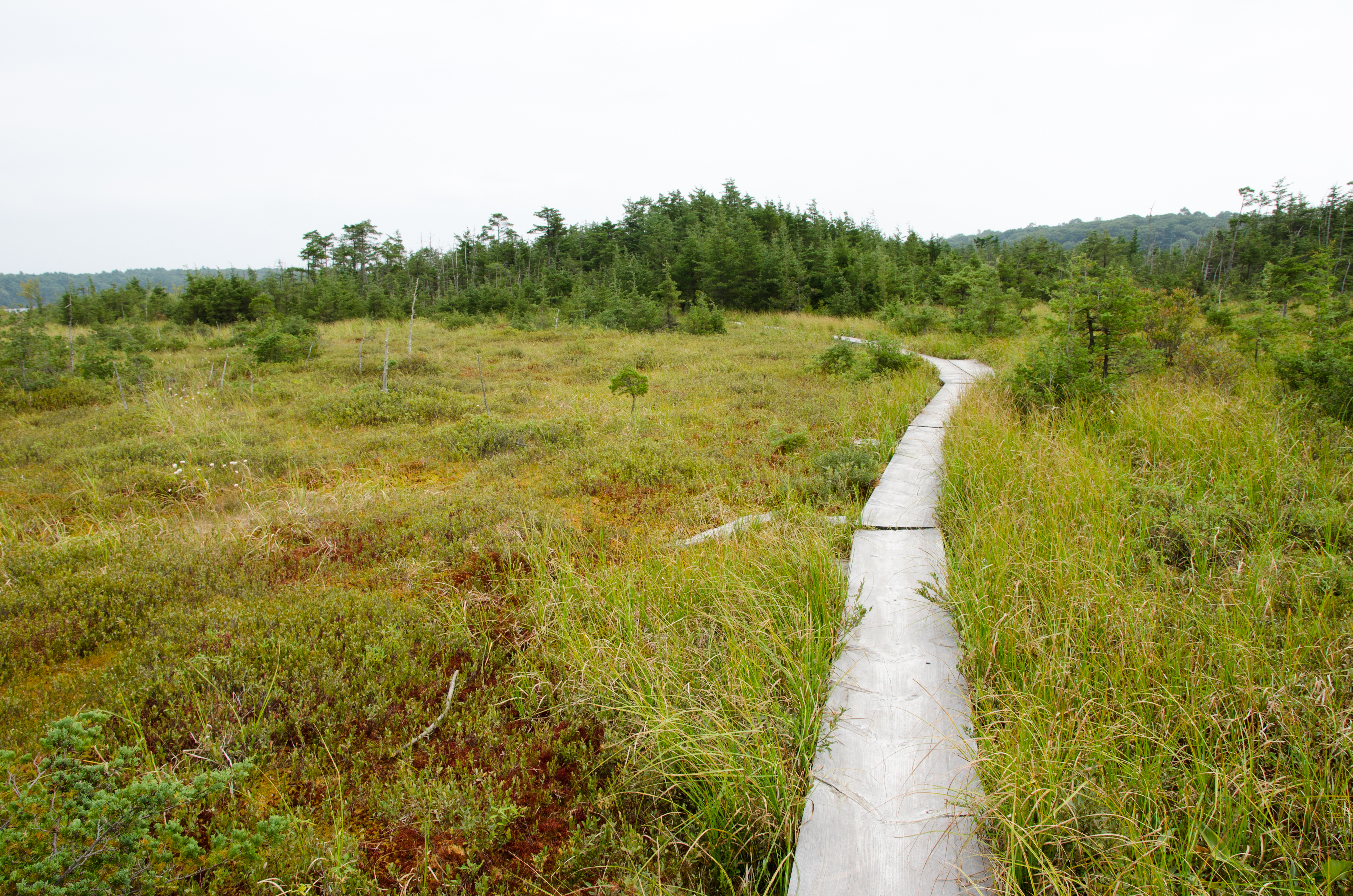 View in an open area from the boardwalk through Ponkapaog Bog in the southern portion of the Blue Hills reservation near Boston, MA.